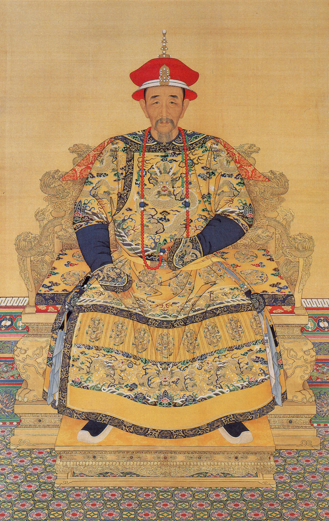 Portrait of the Kangxi Emperor in Court Dress